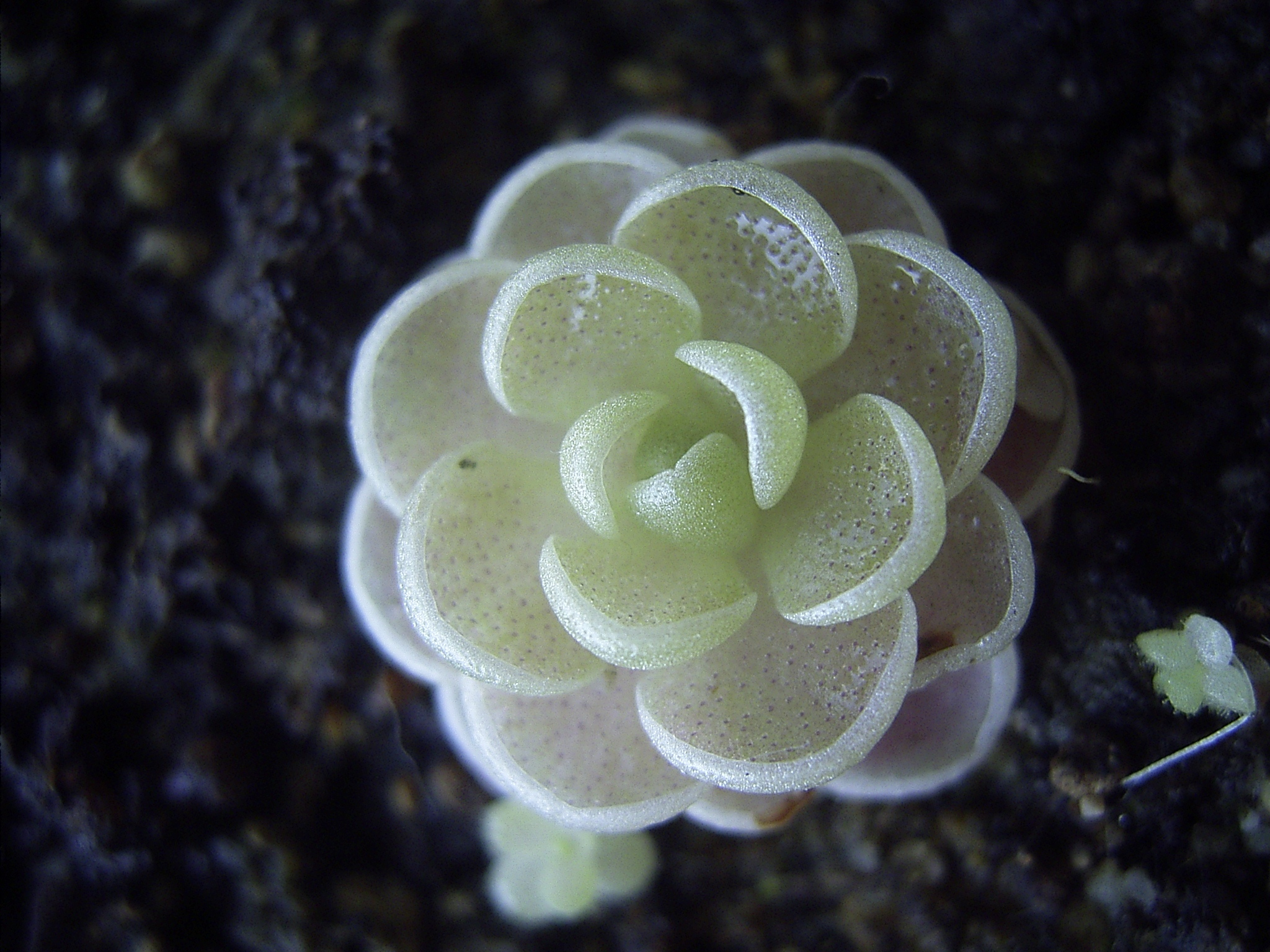 Pinguicula esseriana closeup Author: Denis Barthel